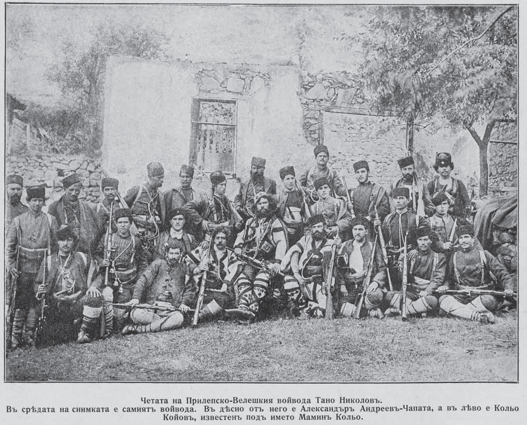 Tane Nikolov, Aleksander Chapata and Mamin Kolyo in front of IMARO cheta